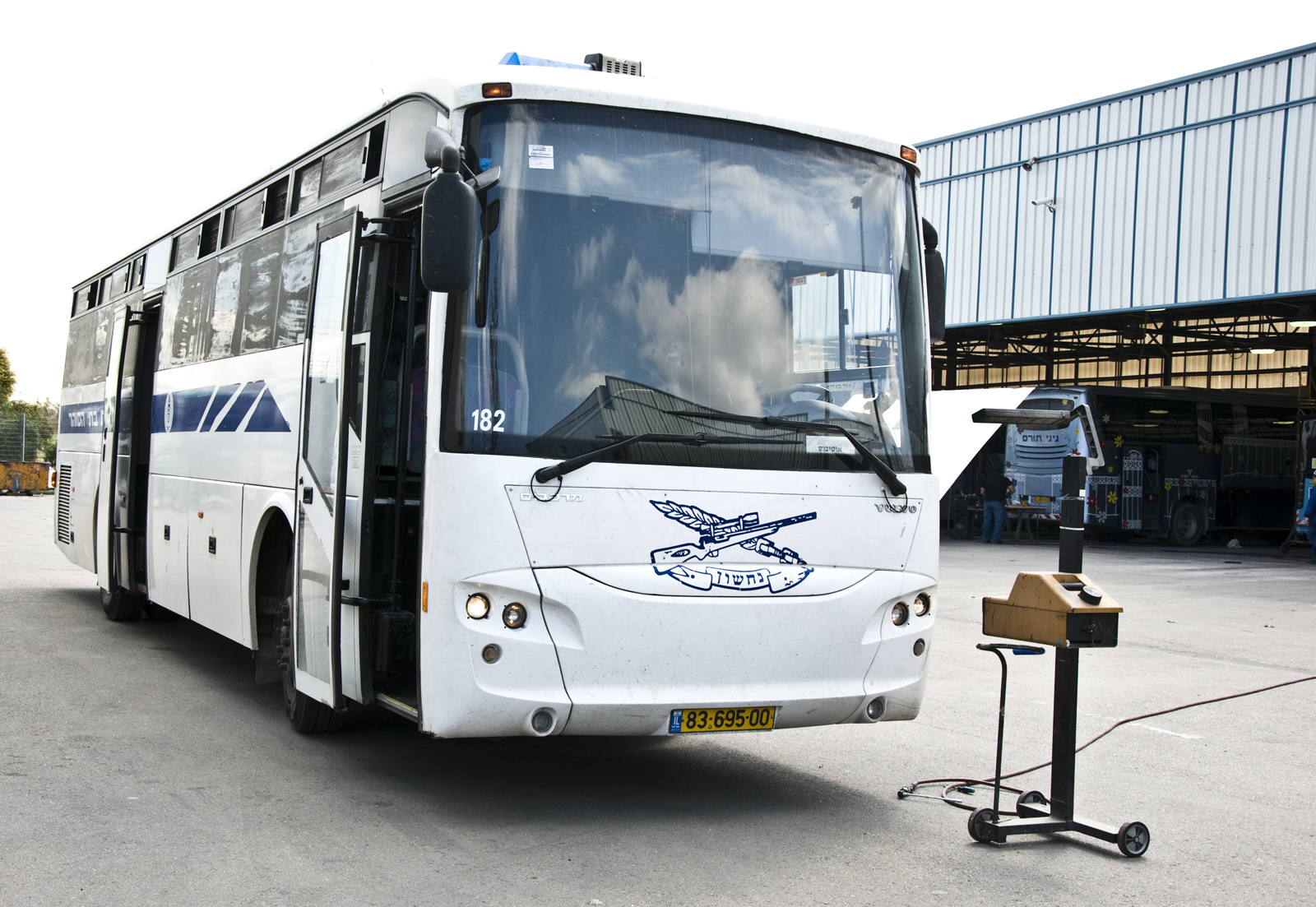 Bus that belongs to the Israel Prison Service in the Merkavim bus assembly plant in Caesarea, Israel.